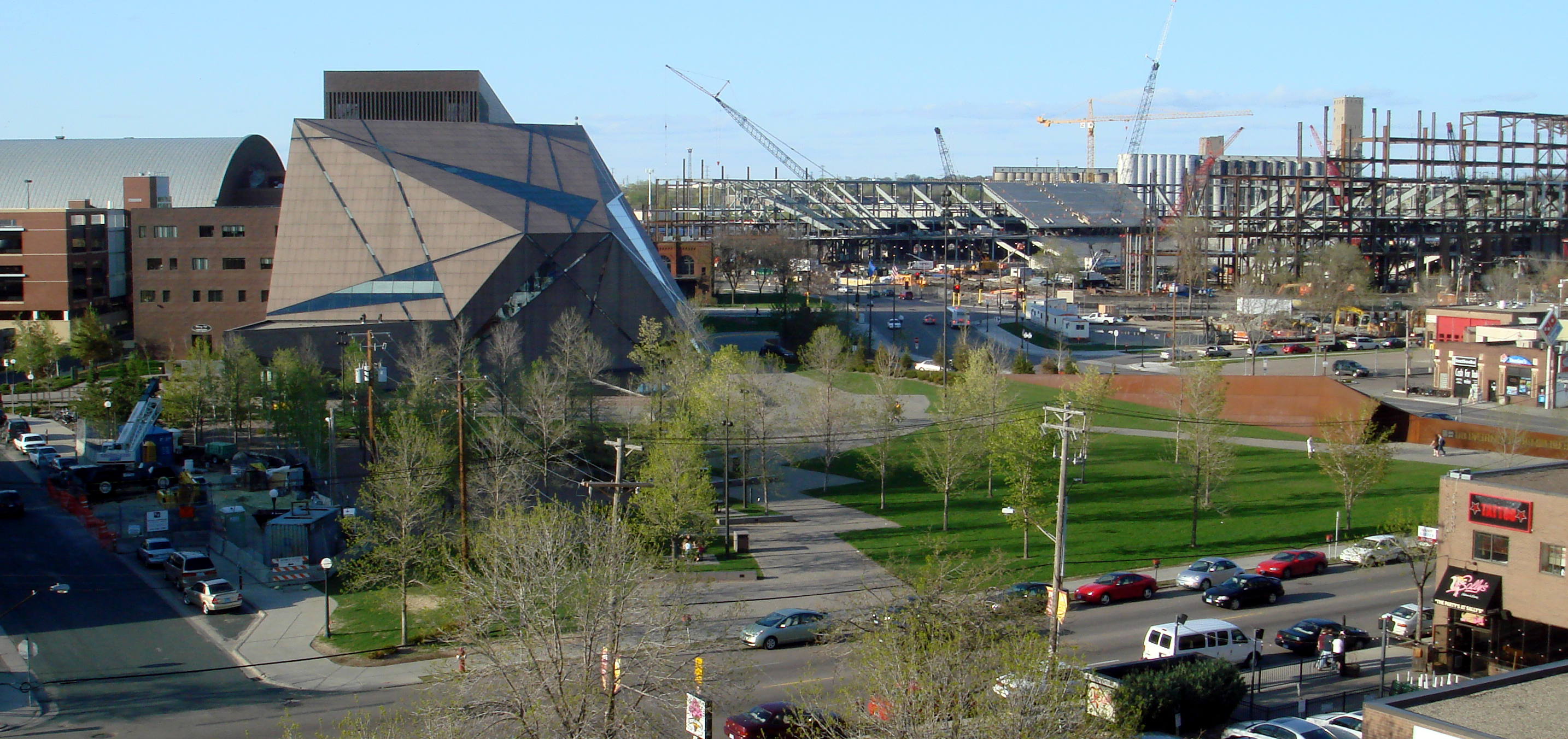 Antoine Predock's McNamara Alumni Center (both trapezoidal structure and office building building on its left), sitting on part of the former site of the old Memorial Stadium, which was the home of Minnesota Golden Gophers college football from 1924-1981, and demolished in 1992. Part of an original entranceway arch is located within the Alumni Center. The new TCF Bank Stadium is rising in the background, only a block away from the site of the former stadium. The photo also shows the associated park in the foreground, as well as the more recently constructed Alumni Wall of Honor, which echoes the design of the Alumni Center.